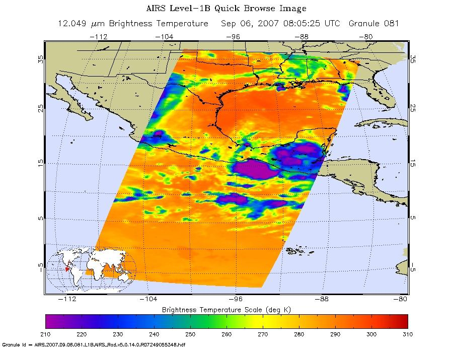 This infrared image shows the remnants of Hurricane Felix over Central America in September 2007. It was created with data retrieved by the Atmospheric Infrared Sounder (AIRS) instrument on NASA's Aqua satellite. Because infrared radiation does not penetrate through clouds, AIRS infrared images show either the temperature of the cloud tops or the surface of the Earth in cloud-free regions. The lowest temperatures (in purple) are associated with high, cold cloud tops that make up the top of the storm. In cloud-free areas AIRS receives the infrared radiation from the surface of the Earth, resulting in the warmest temperatures (orange/red). AIRS, with its visible, infrared, and microwave detectors, provides a three-dimensional look at Earth's weather. AIRS is managed by NASA's Jet Propulsion Laboratory, Pasadena, Calif.